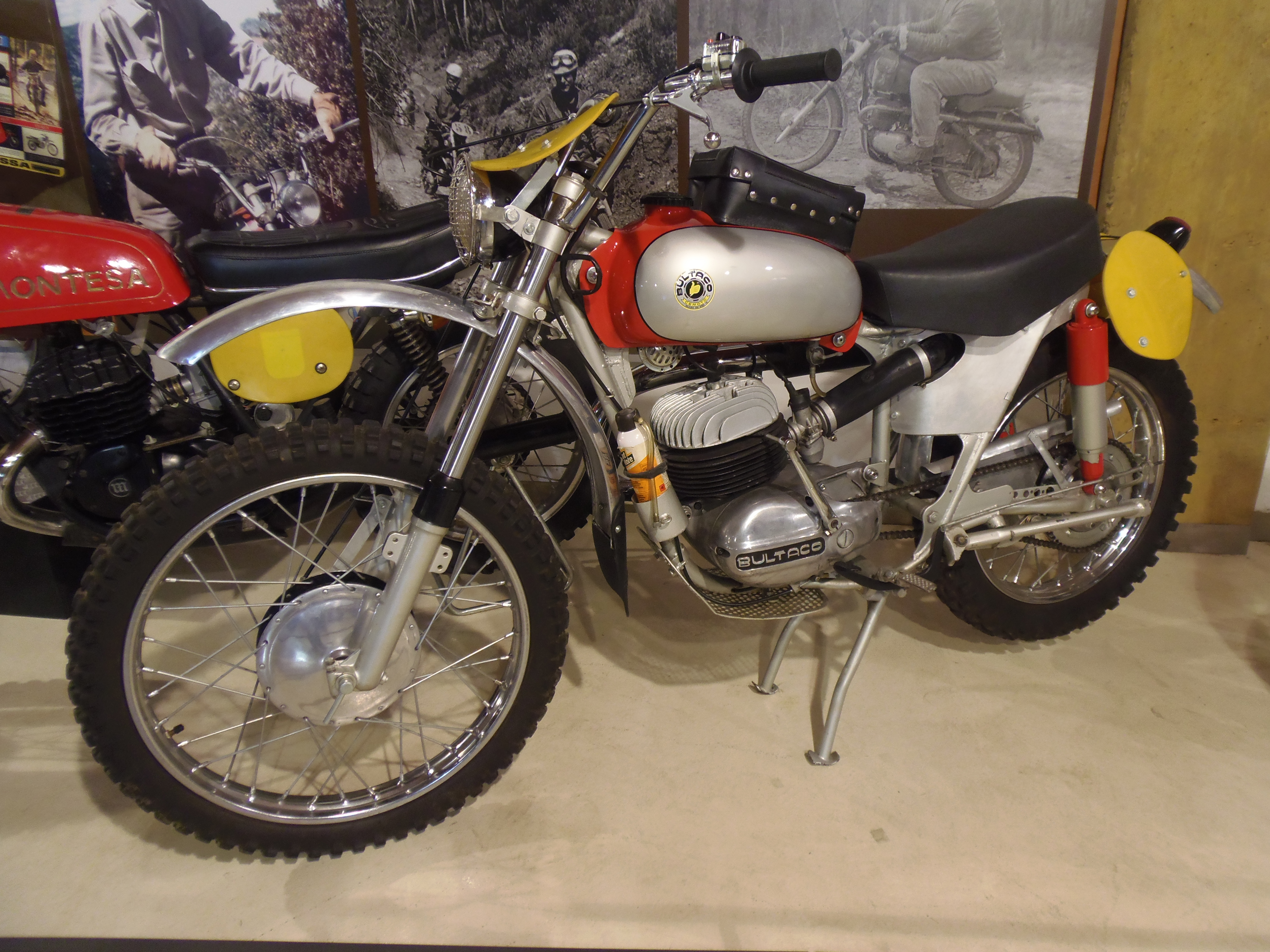 Bultaco Sherpa 200 "Competition", enduro version developed from the Sherpa S and destinated to the ISDT. This unit was used in the 1963 ISDT (held in Špindlerův Mlýn, former Czechoslovakia).